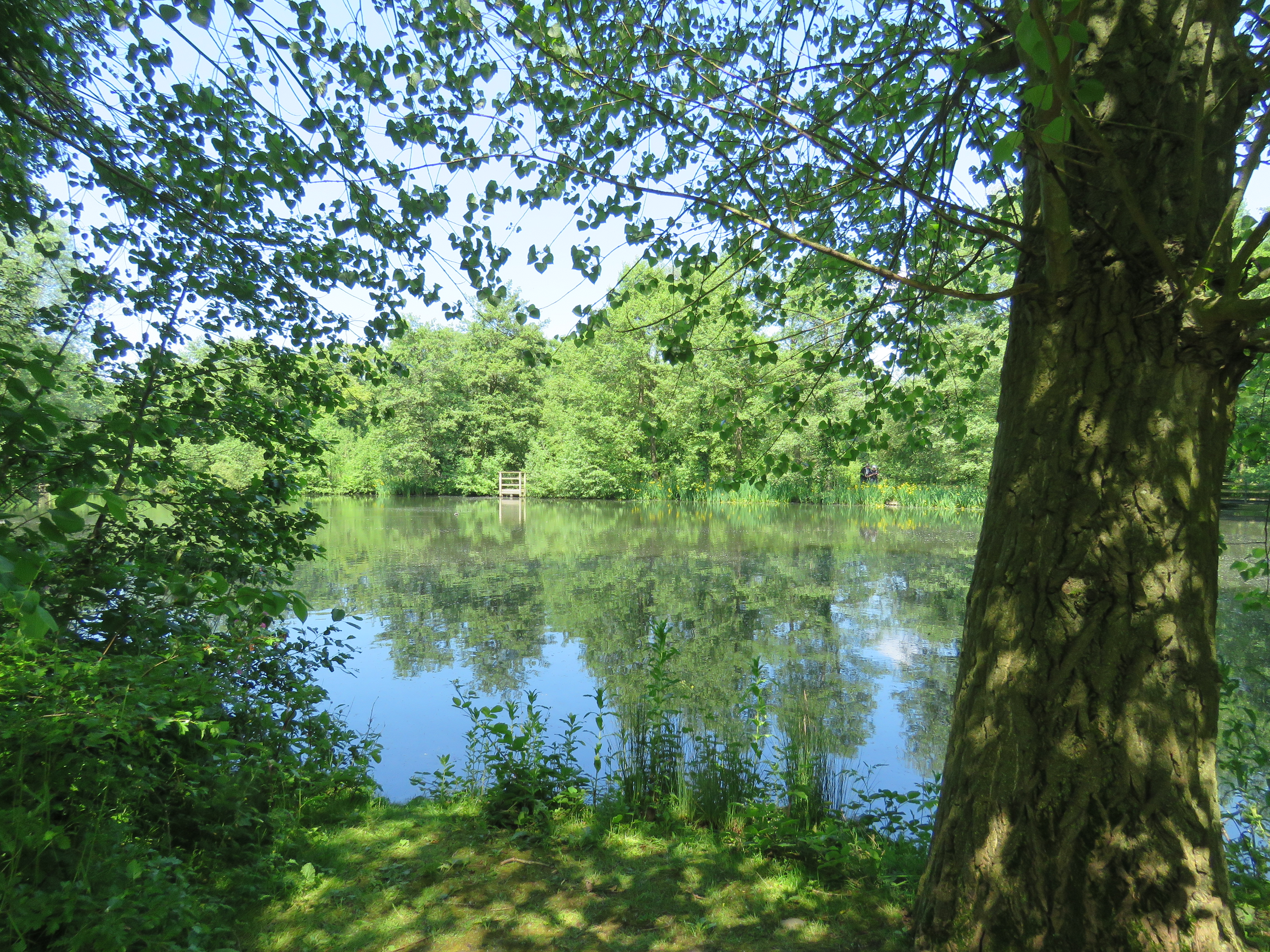 One of the lakes at Burton Mere RSPB Reserve, Cheshire